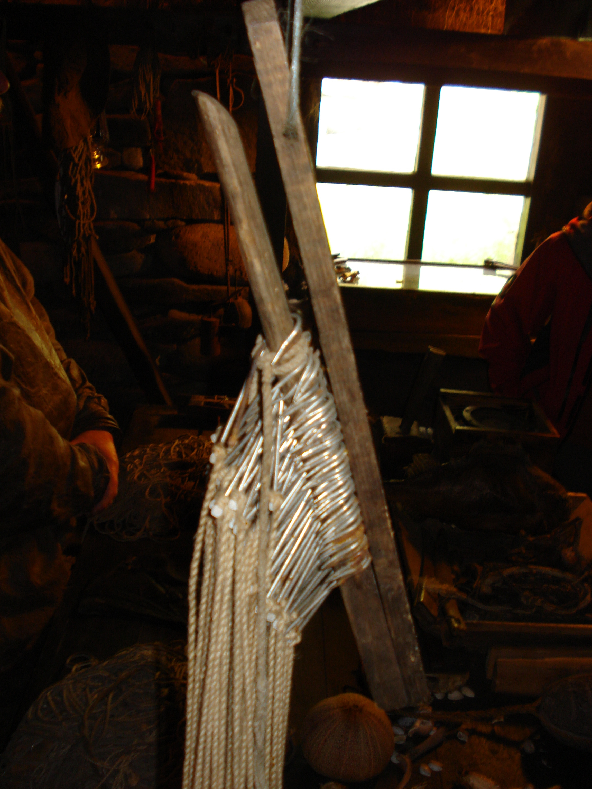 Traditional Gaff (50 at a string), Bolungavík, Iceland